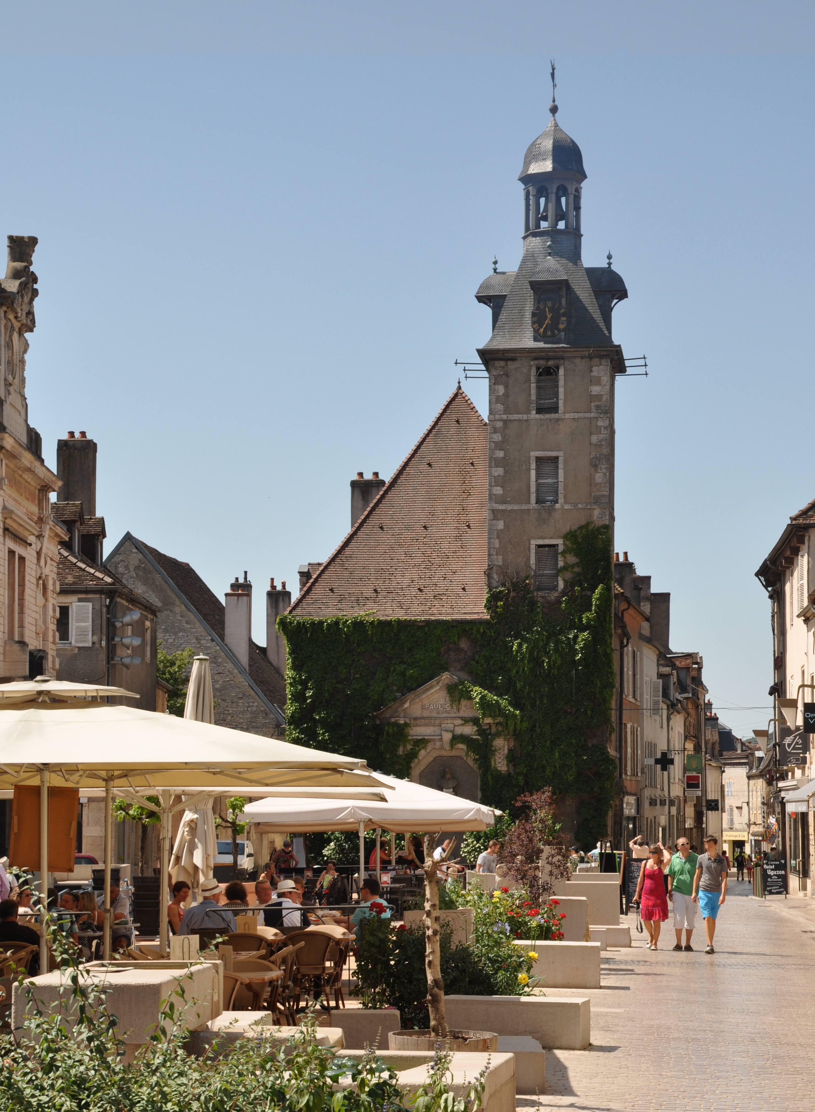 Town center of Nuits-Saint-Georges, Burgundy, France, with bell tower "Beffroi" .